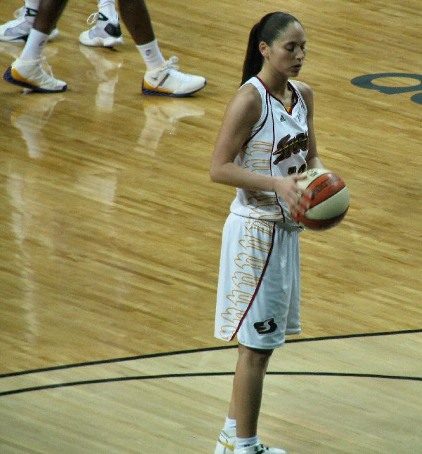 Sunday, September 21st 2008.